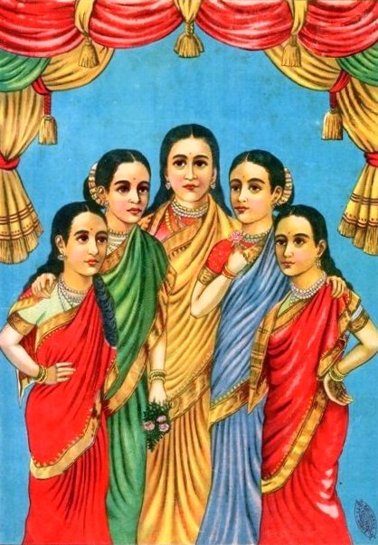 from baroda art gallery museum video screen shots